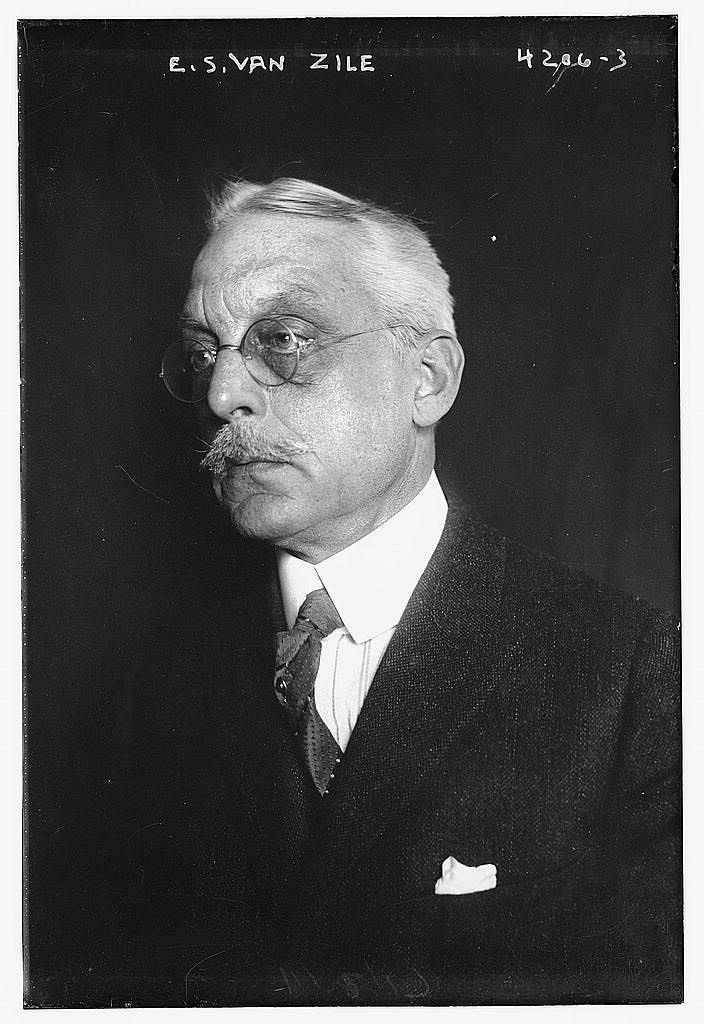 Edward Sims Van Zile (1863-1931) circa 1917